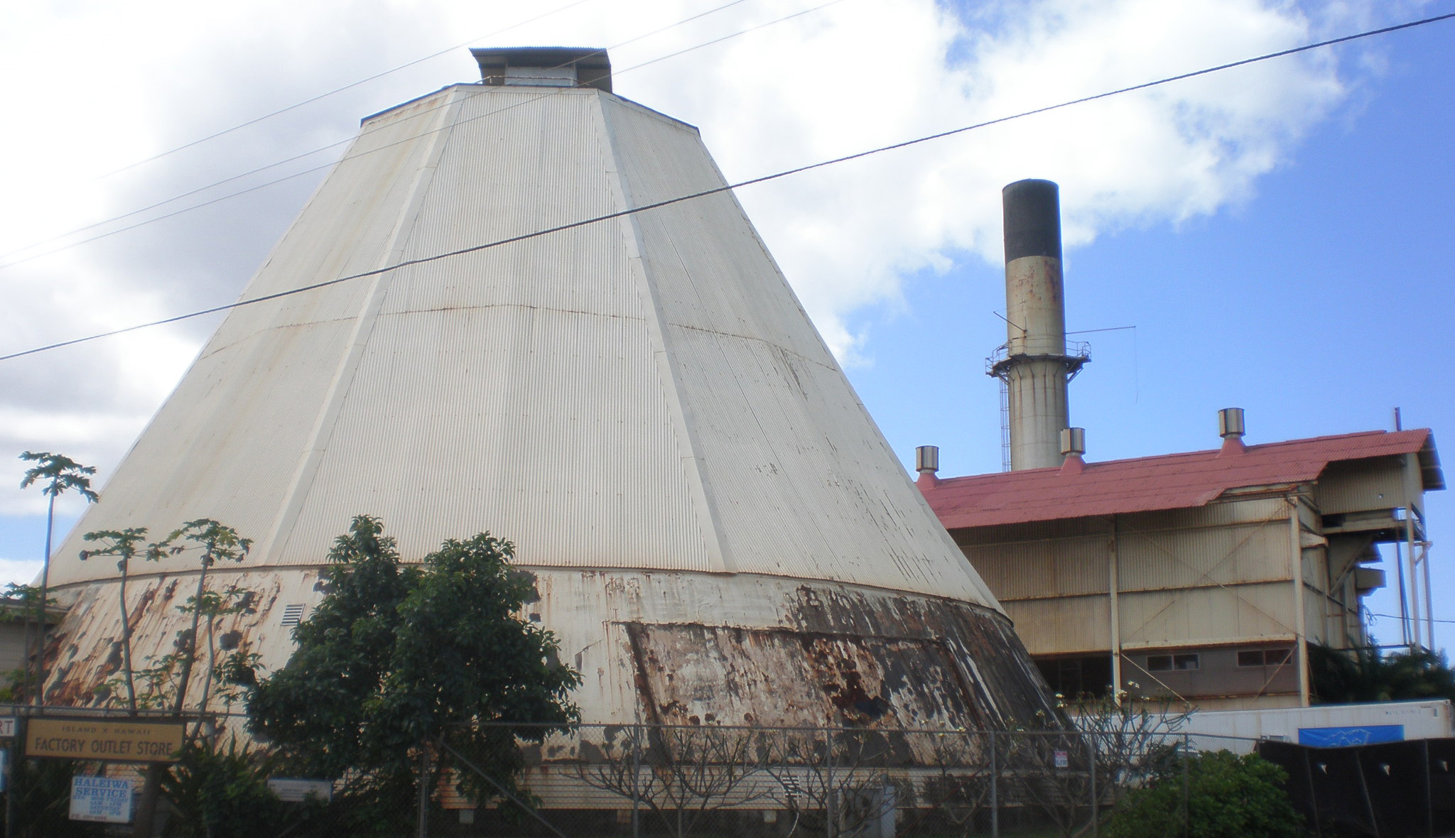 Remains of Waialua Sugar Mill, Waialua, Hawaii, in 2009